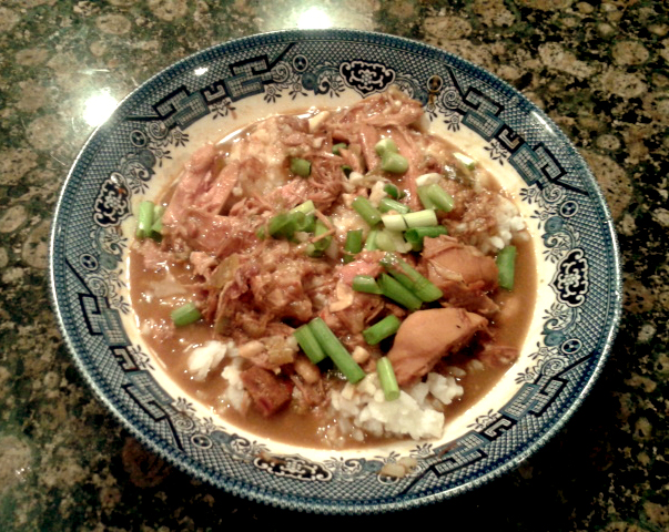 A bowl of smothered turkey and gravy served over boiled white rice with a sprinkling of diced green onions on top.